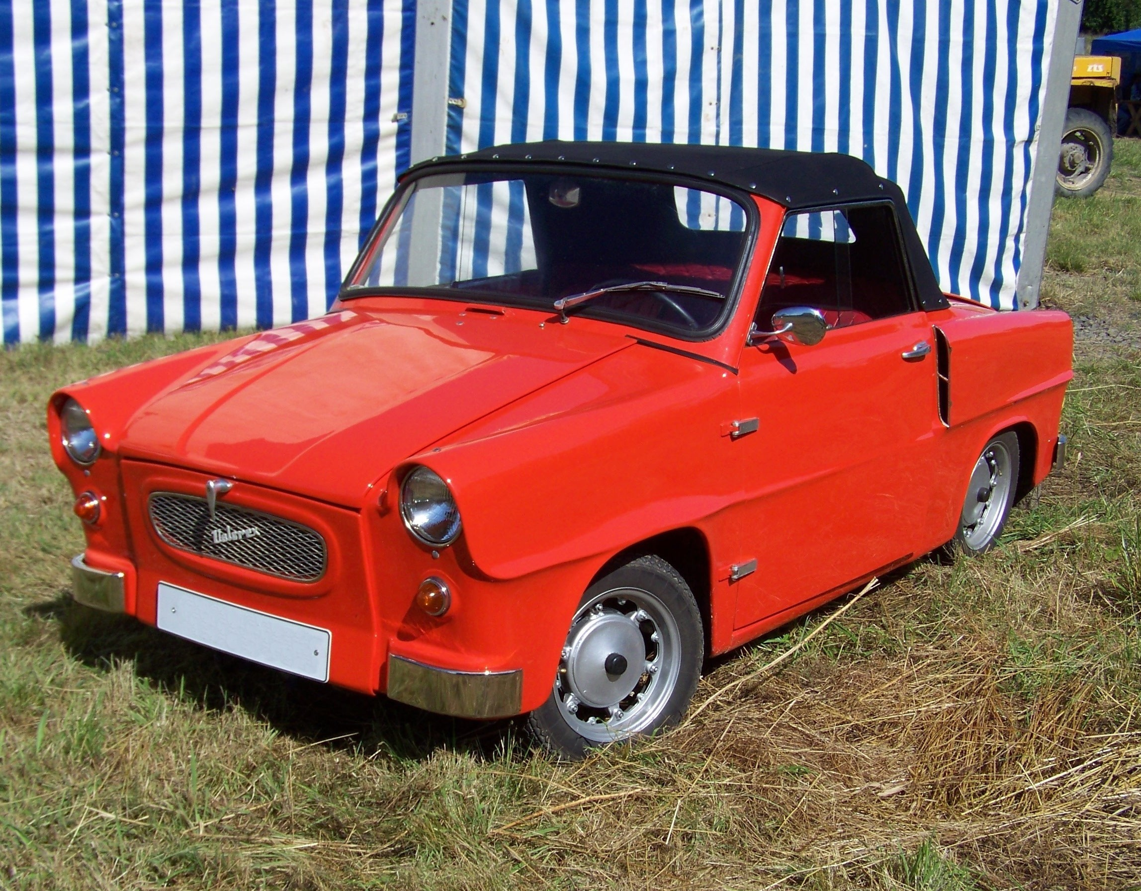 Velorex 1960 in Libá